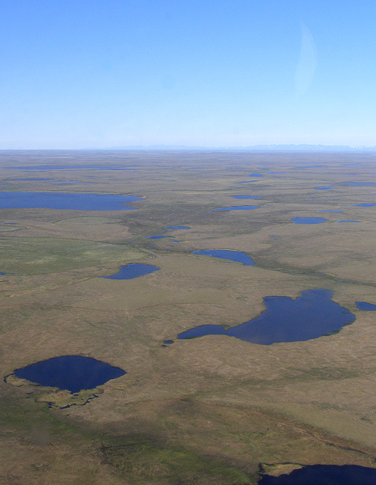 Anadyr Lowland in Chukotka, northeastern Russia